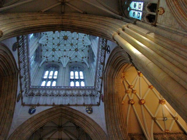 Passing through to the Central Transept Tower, York Minister